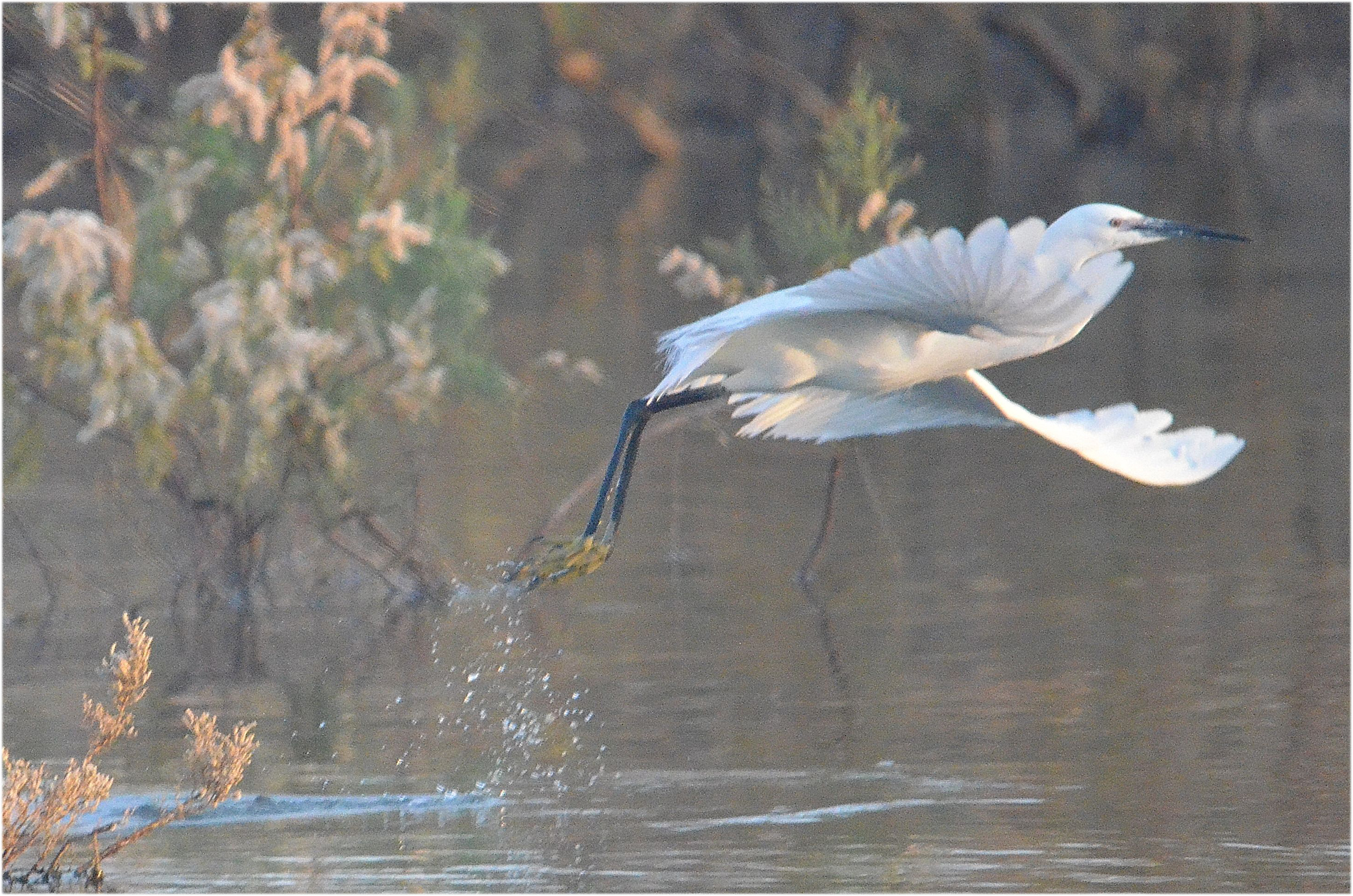 Little Egret